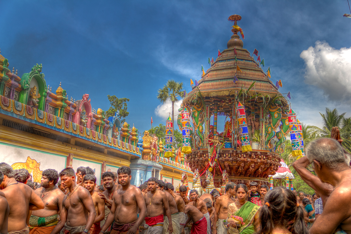 தேர்த் திருவிழா